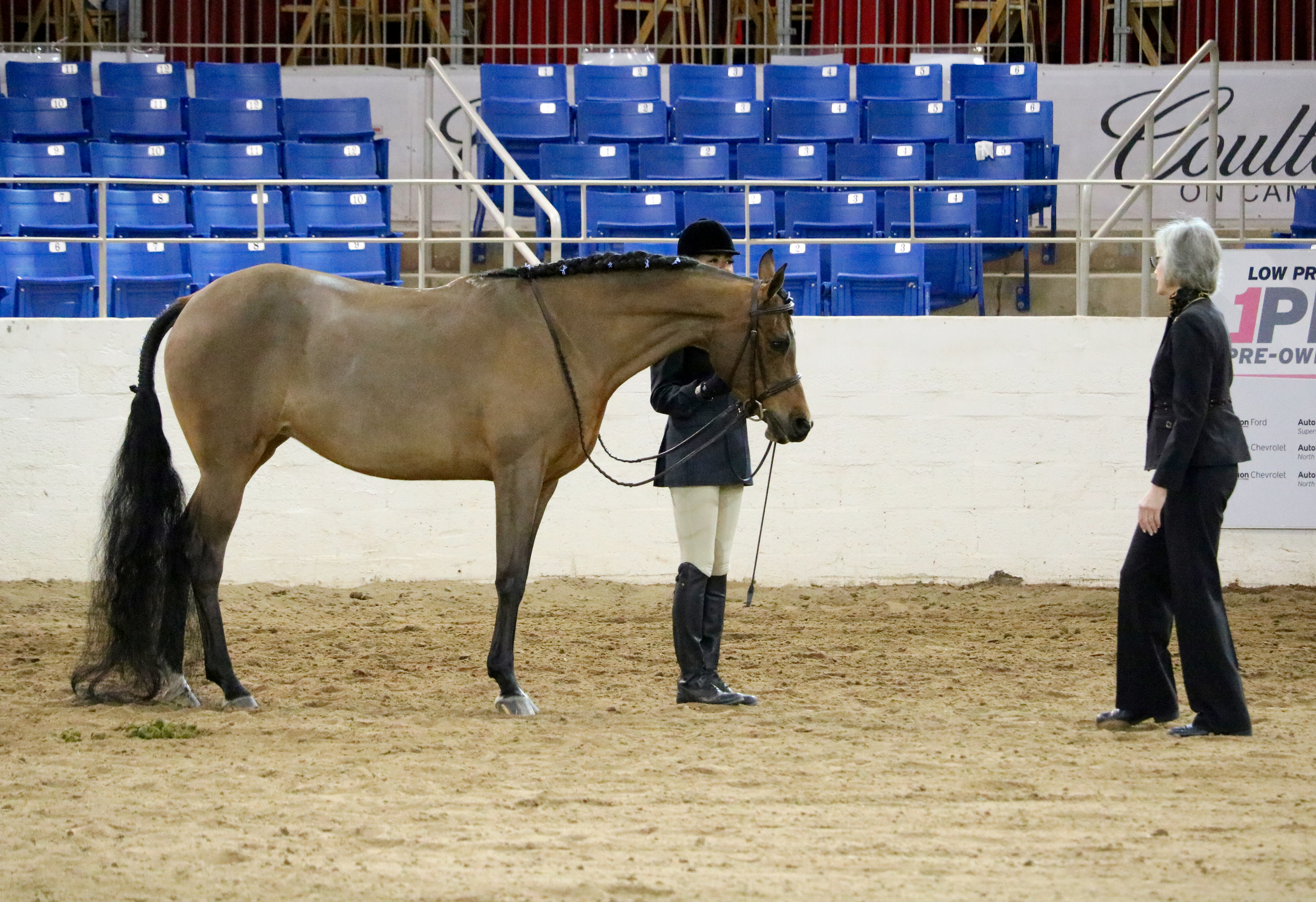 Adult Showmanship class at Scottsdale Arabian Show, 2017. Hunter in-hand style